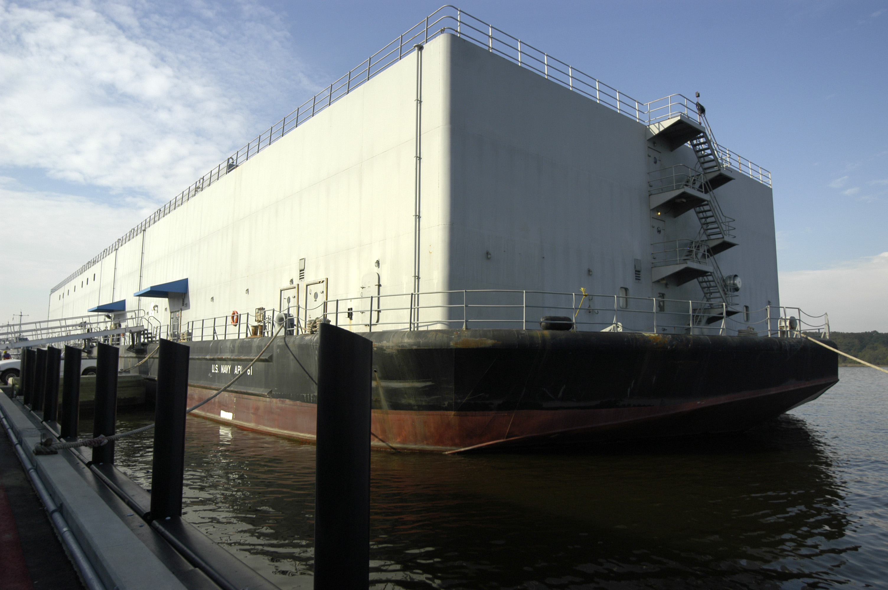 Annapolis, Md. (Oct. 9, 2003) -- The U.S. Navy Barracks Craft Auxiliary Personnel Lighter Sixty One (APL-61) is moored alongside the U.S. Naval Academy's Dewey Seawall. The barge is 90 feet wide, 360 feet long and is five stories in height. It will serve as temporary classrooms for Midshipmen displaced by Hurricane Isabel and is expected to be used for the remainder of the semester. The barge has been used in the past for crews of ships during yard periods and is totally dependent on shore utilities. It has been configured for computer networks and Internet service as well as many of the necessary services such as barbers, medical and dental services, postal service and religious ministries. U.S. Navy photo by Photographer's Mate 2nd Class Damon J. Moritz. (RELEASED)